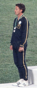 Australian sprinter Peter Norman during the award ceremony of the 200 m race at the Mexican Olympic games. Mexico City, Mexico, 1968.